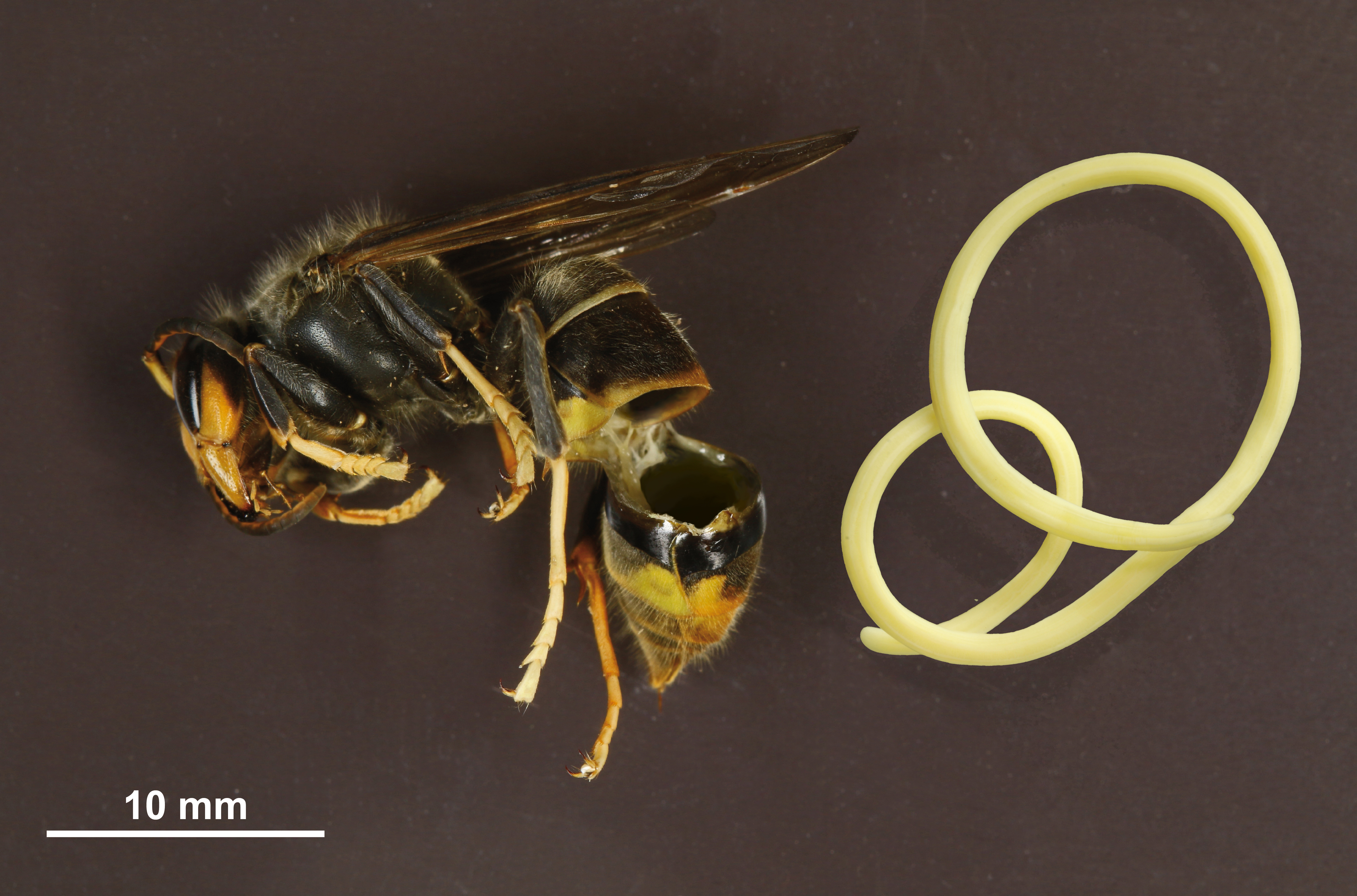 A montage of parasitic Mermithid nematode (probably Pheromermis vasparum) and its host, the Asian Hornet Vespa velutina.